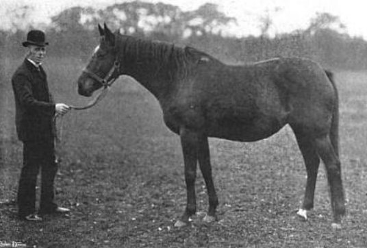 Amiable, winner of the Epsom Oaks.